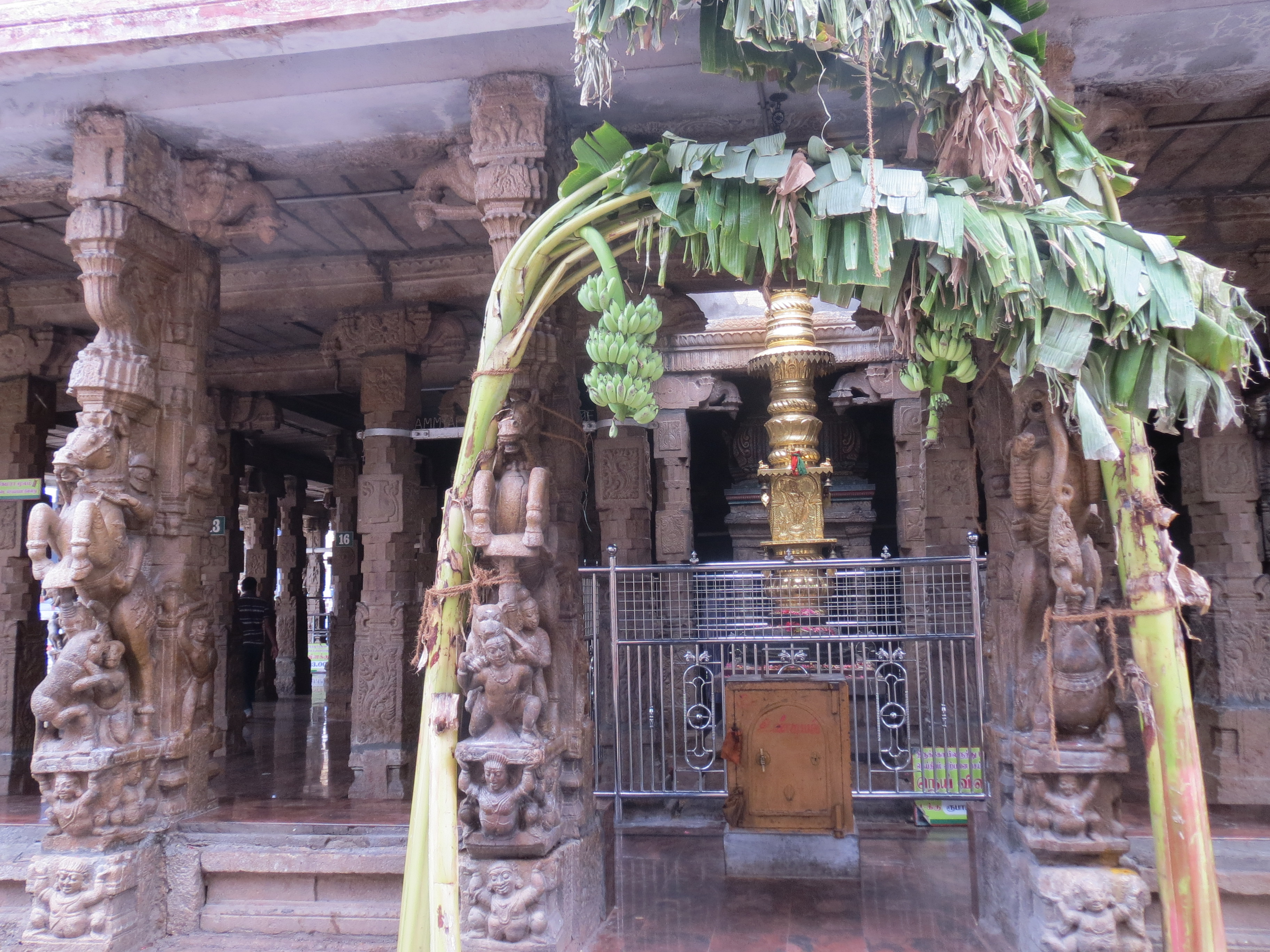 Thiruchengodu Arthanareeswarar sannidhi-Front mandapam